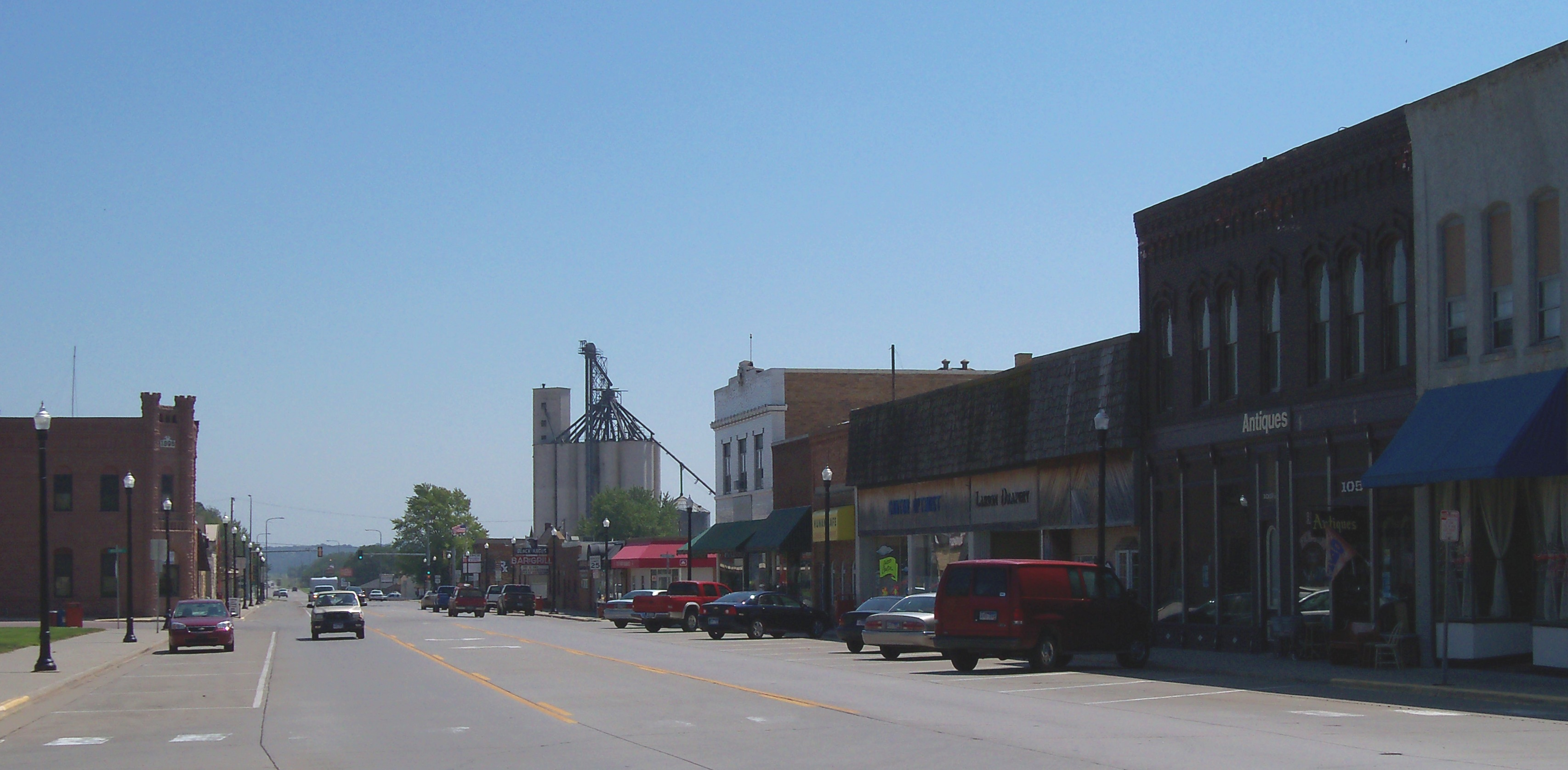 Downtown Canton, South Dakota, USA.